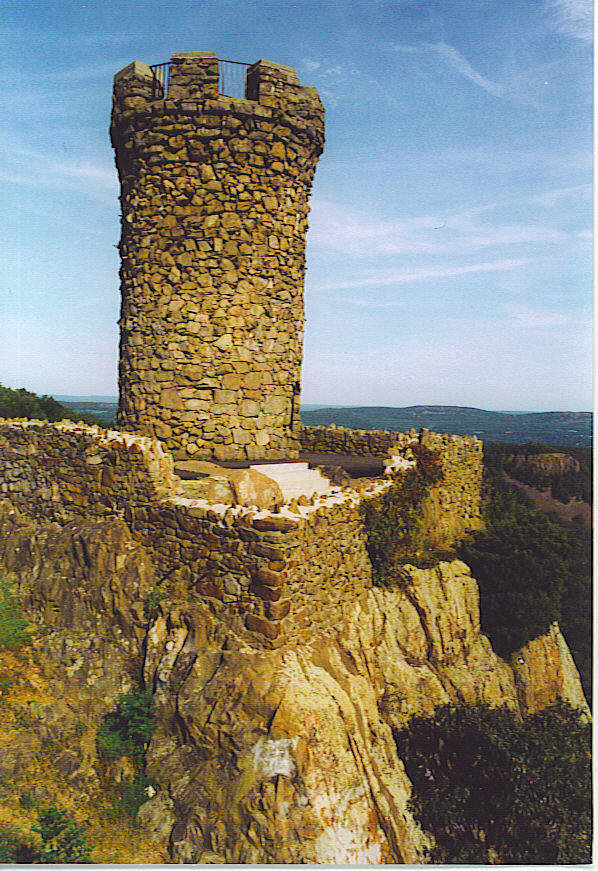 Self made photograph by Ben Turover [1]